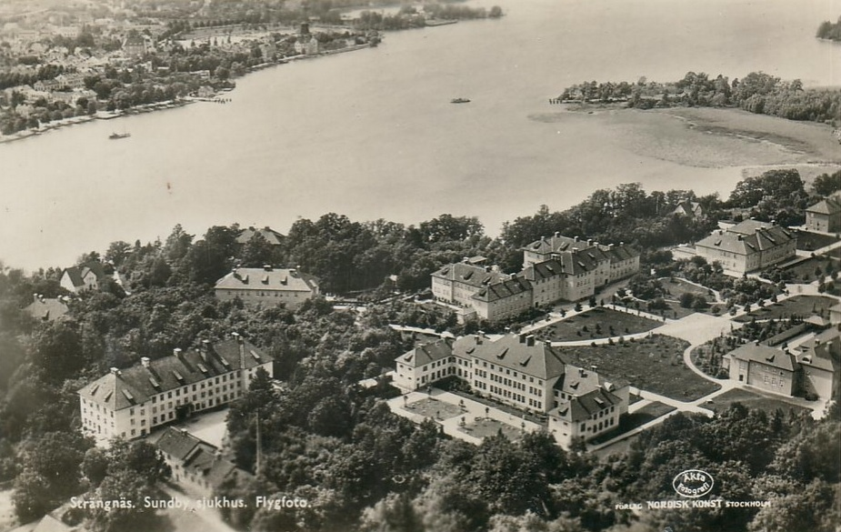 Old postcard picturing Sundby sjukhus (lunatic asylum) in Strängnäs in Sweden